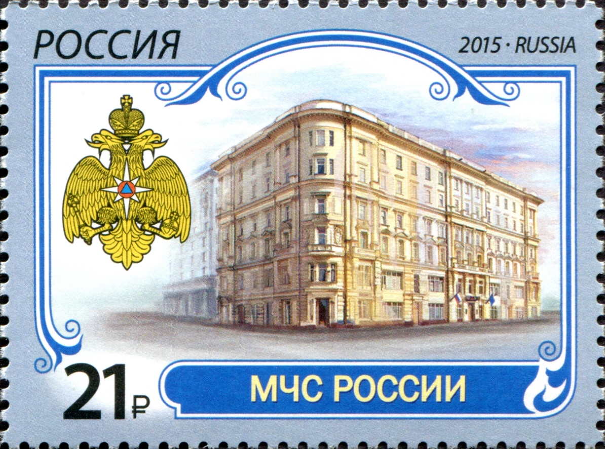 Ministry of the Russian Federation for Civil Defence, Emergencies and El imination of Consequences of Natural Disasters